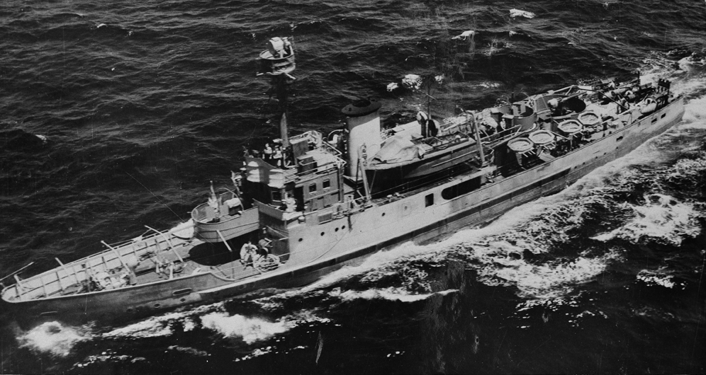 Aerial Port View of Auxiliary Anti Submarine Vessel HMAS Abraham Crijnessen. Formerly a Dutch minesweeper which fled to Australia after the fall of the Netherlands East Indies.